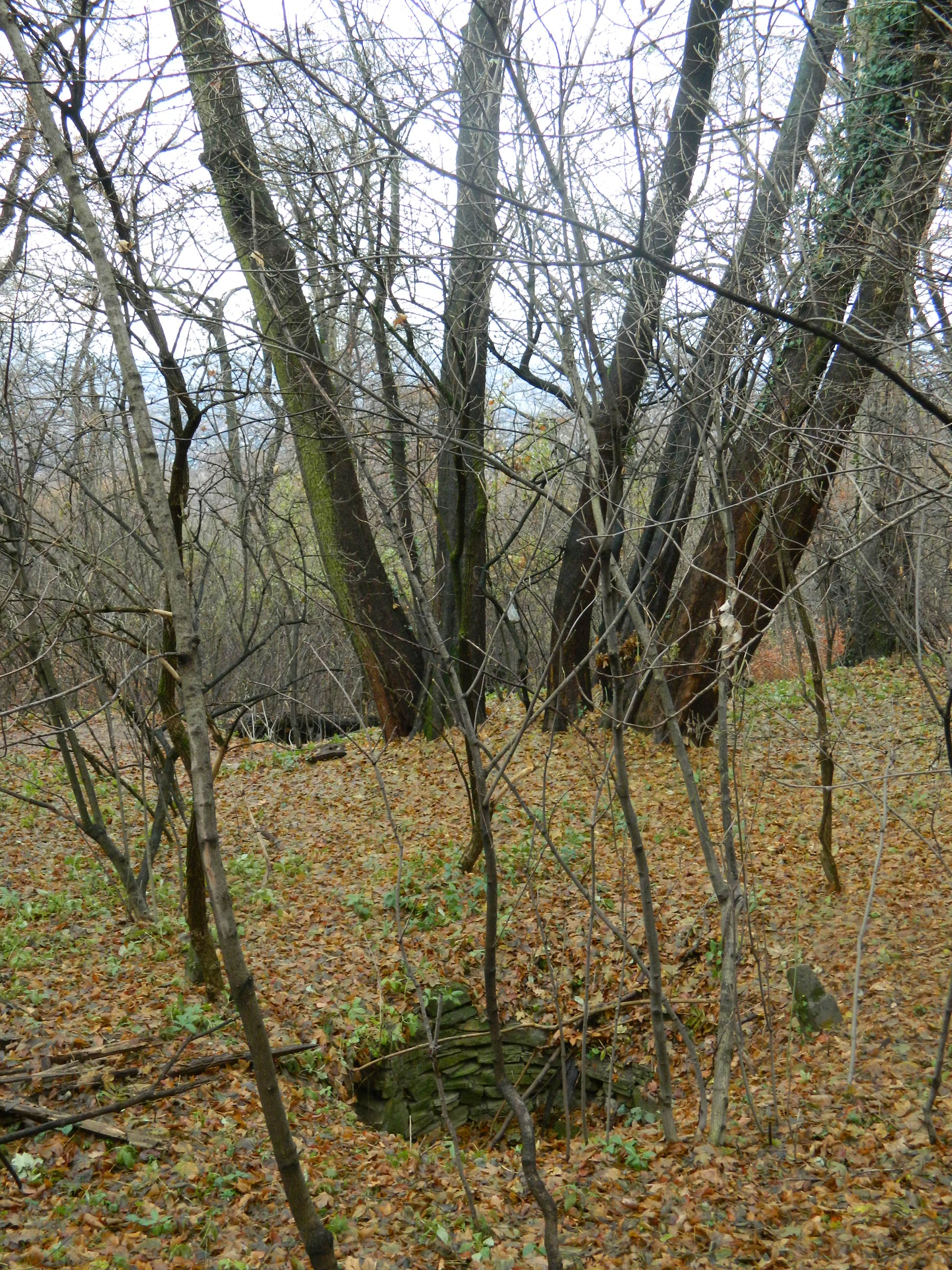 Dear well on Janoshegy Hill, Budapest, Hungary